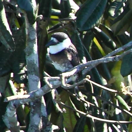 Brown-banded Puffbird at Alta Floresta - MT - Brazil